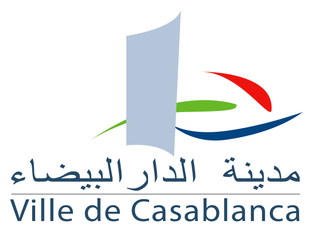 Logo of Casablanca city